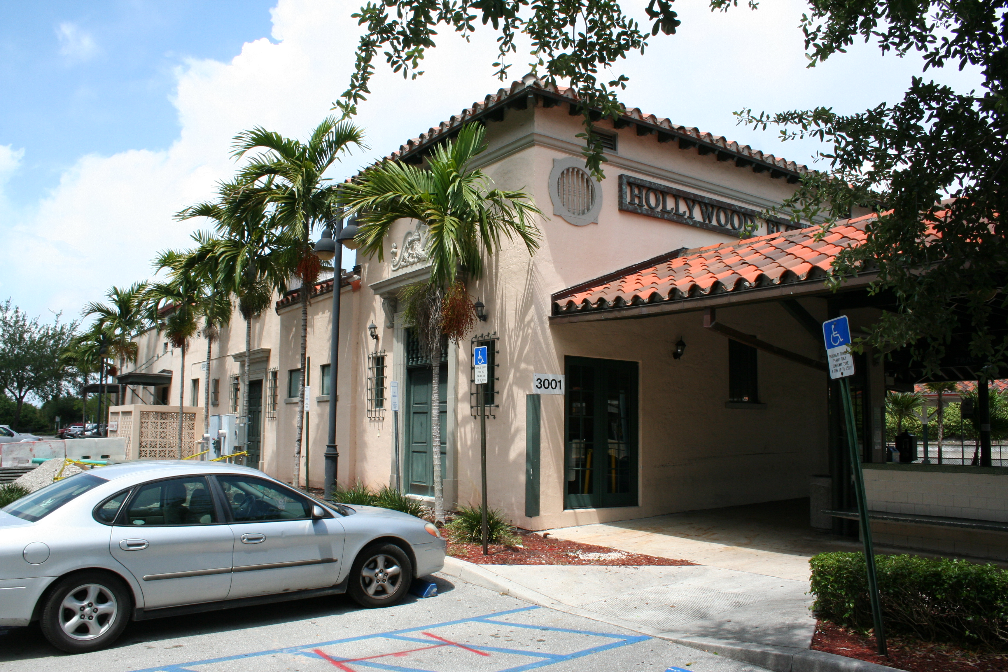 Photograph of west side of Hollywood, Florida, Amtrak (and former Seaboard Air Line Railway) station